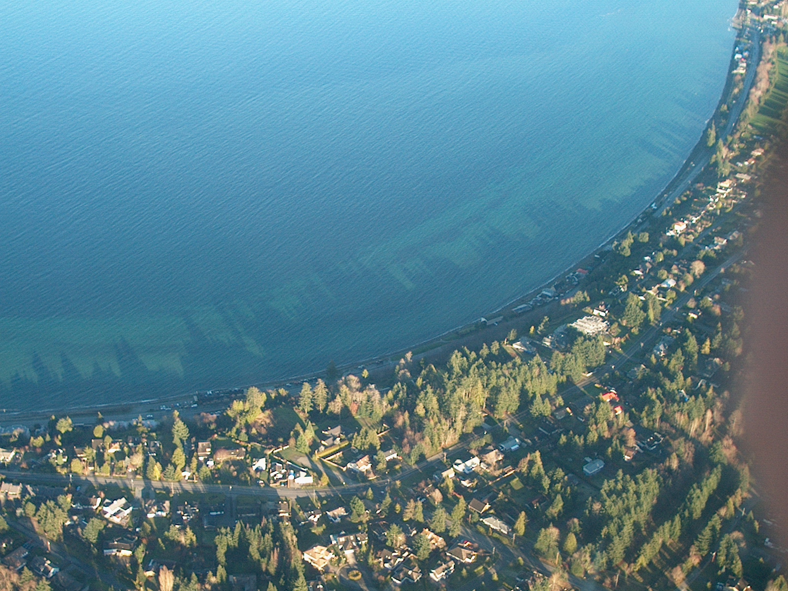 Town of Qualicum Beach, waterfront, aerial ,December 27, 2004